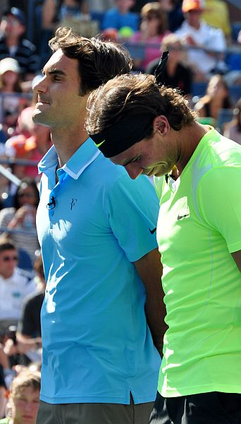 Tennis Players Roger Federer & Rafael Nadal attend 15th Annual Arthur Ashe Kid's Day on August 28, 2010 at Billie Jean King Stadium in Queens, New York. (Photo © Nick Stepowyj)